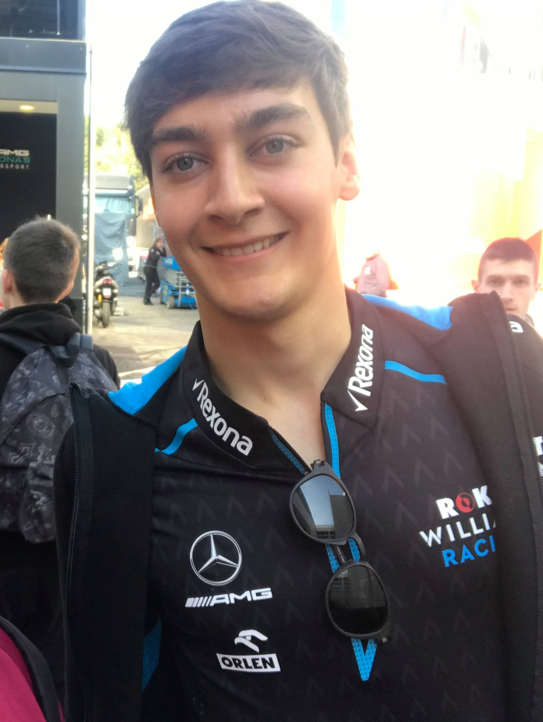 2019 Formula One tests Barcelona, Russell.